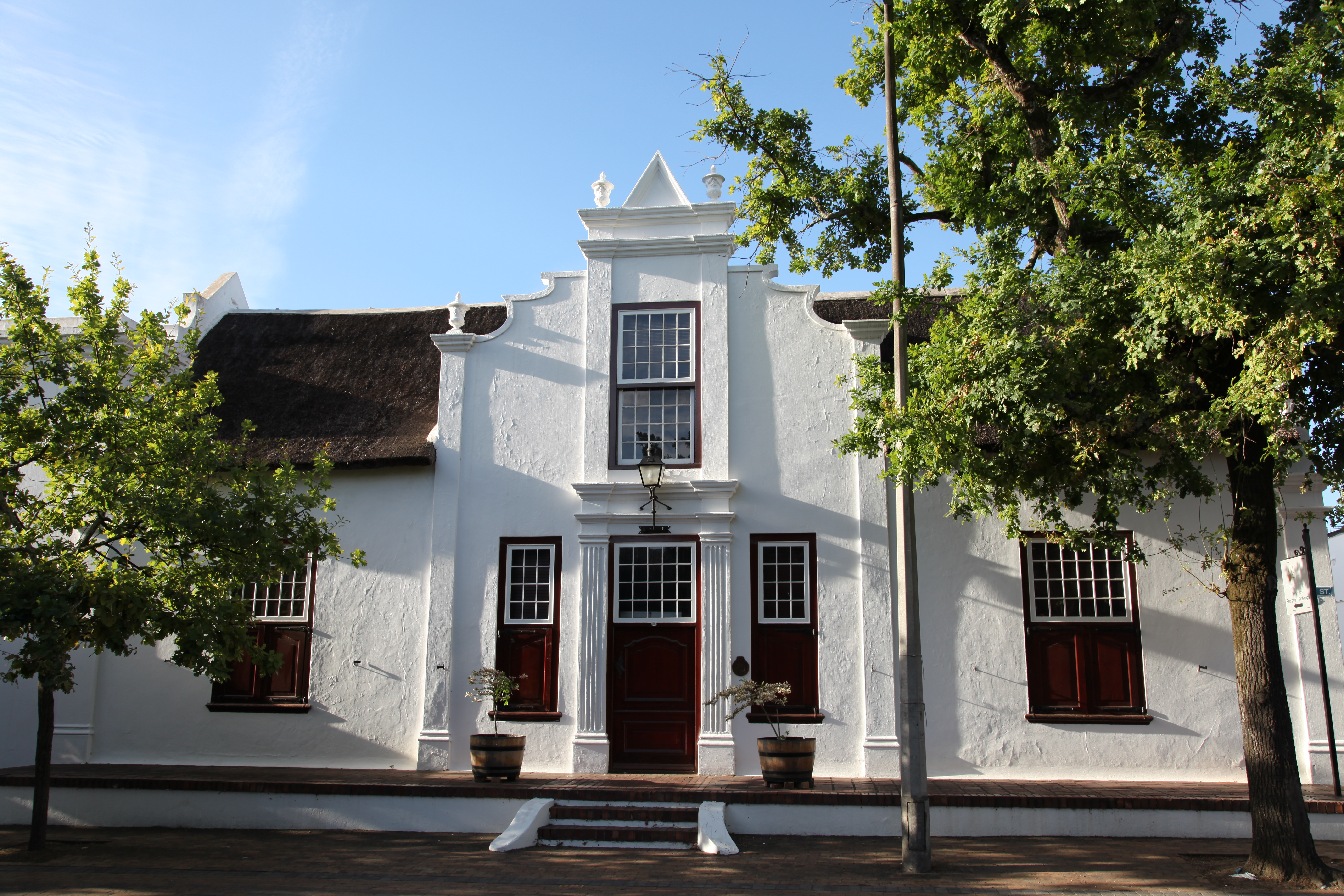 Ackerman House in Dorp Street, Stellenbosch, was built in 1815 by Christiaan Neethling. It was restored in 1971. This media shows a South African Protected Site with SAHRA file reference 9/2/084/0086.